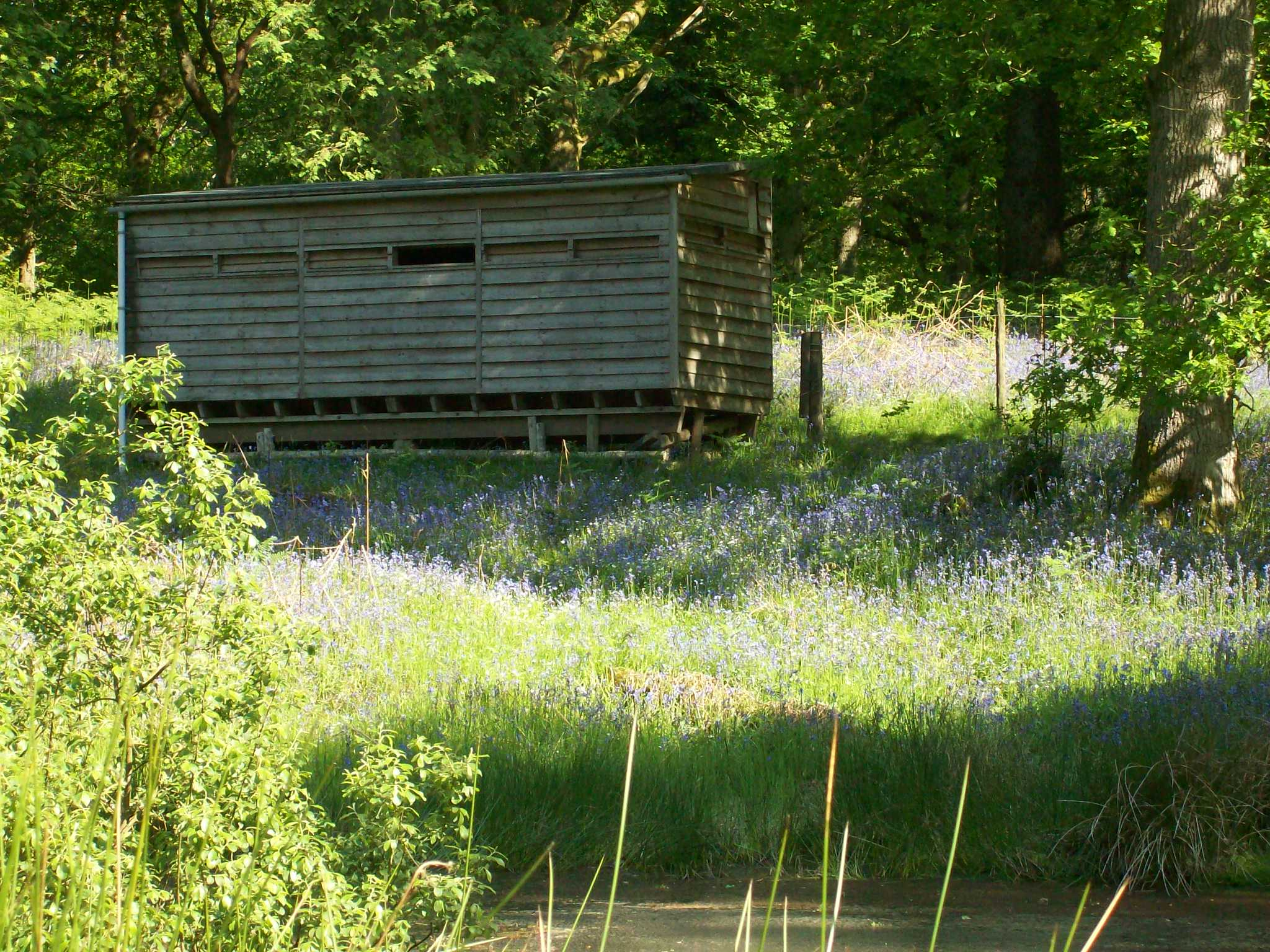 View of Lower Hide at Nagshead woodland reserve, located on the western edge of Parkend, in the Forest of Dean, Gloucestershire.